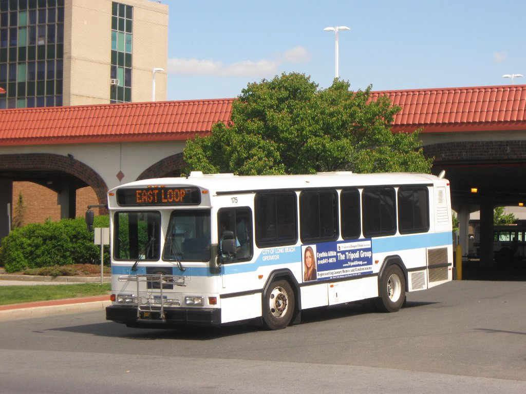 Long Beach (New York) bus #175 leaves the railroad station.